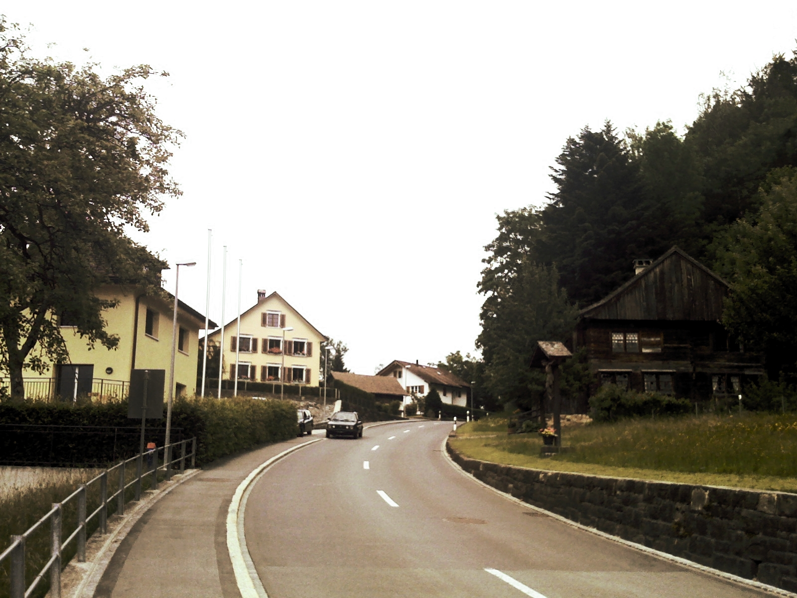 Schellenberg (at right: the Biedermann House), LiechtensteinEsperanto: Schellenberg (dekstre: la Biedermann-Domo), Liĥtenŝtejno